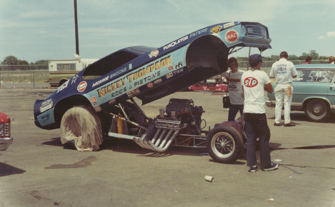 Mickey Thompson vehicle, Dallas 1971. I think Bob Pickett was the driver here.Mickey Thompson